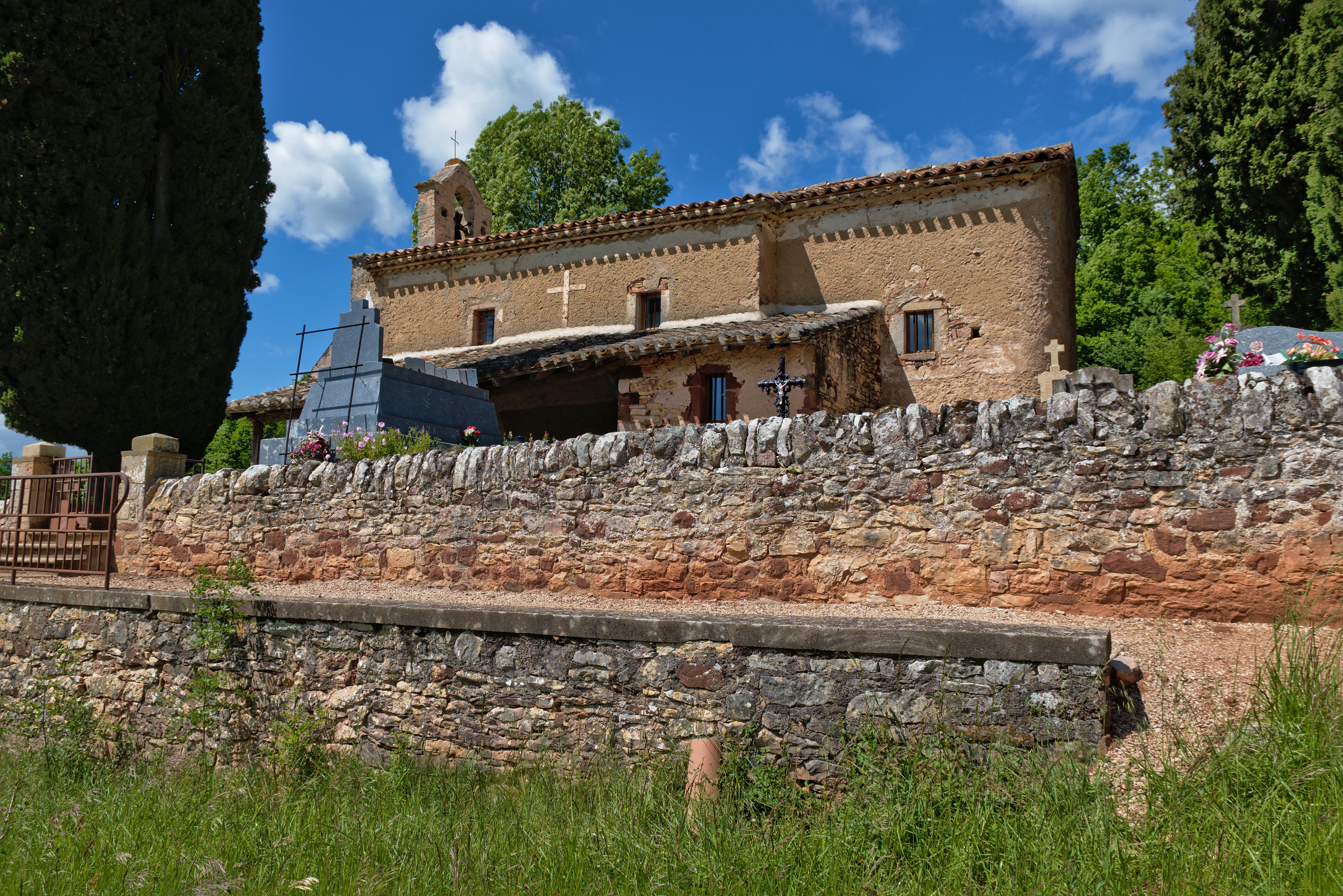 Chapel "Notre Dame de Mespel", on the edge of Grésigne Forest, near Larroque, Tarn, France.